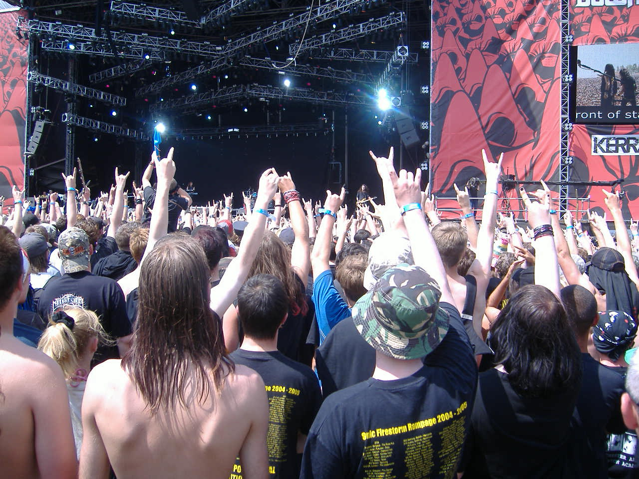 Metal fans displaying the sign at a festival.